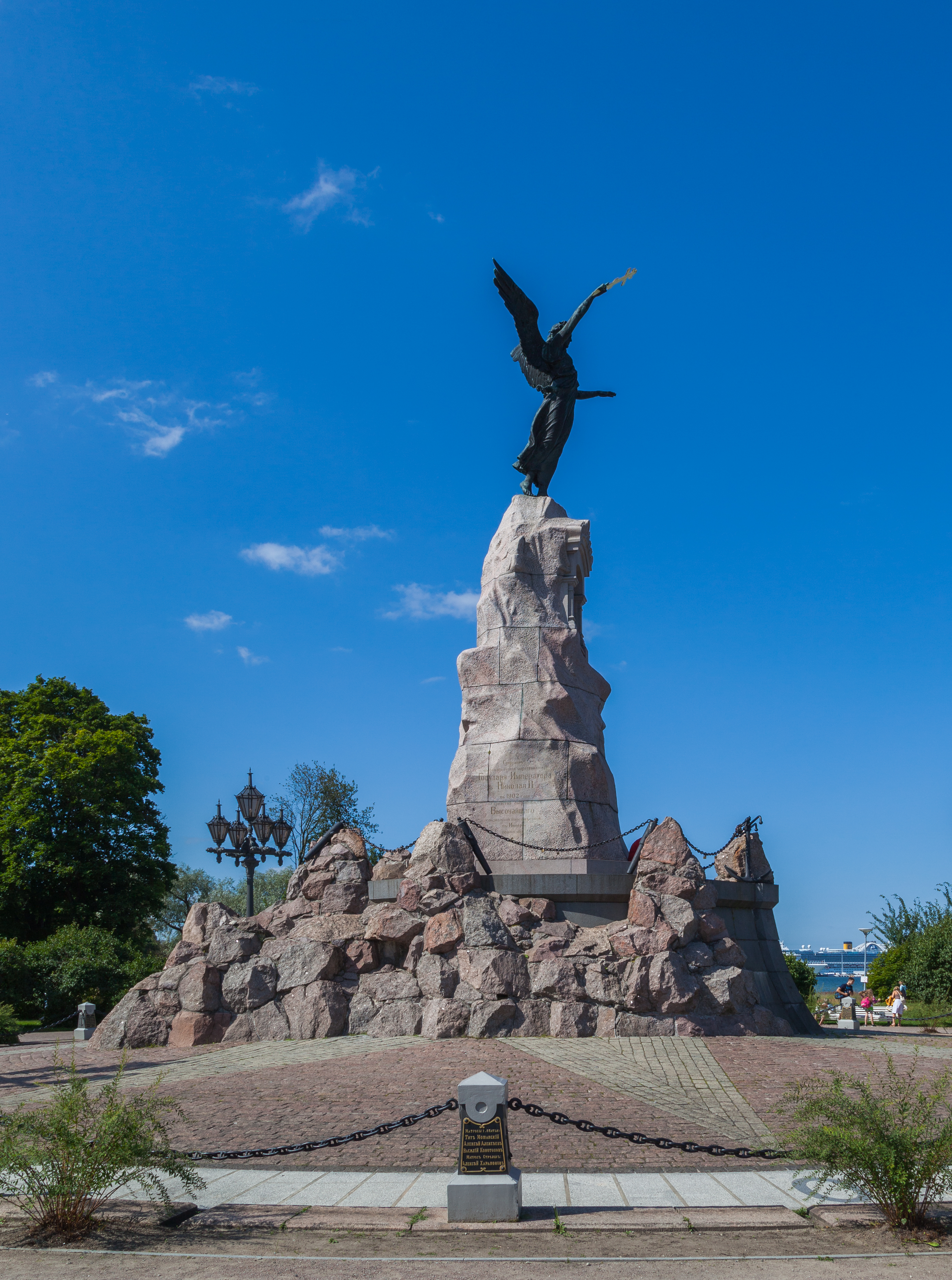 Rusalka Memorial, Tallinn, Estonia